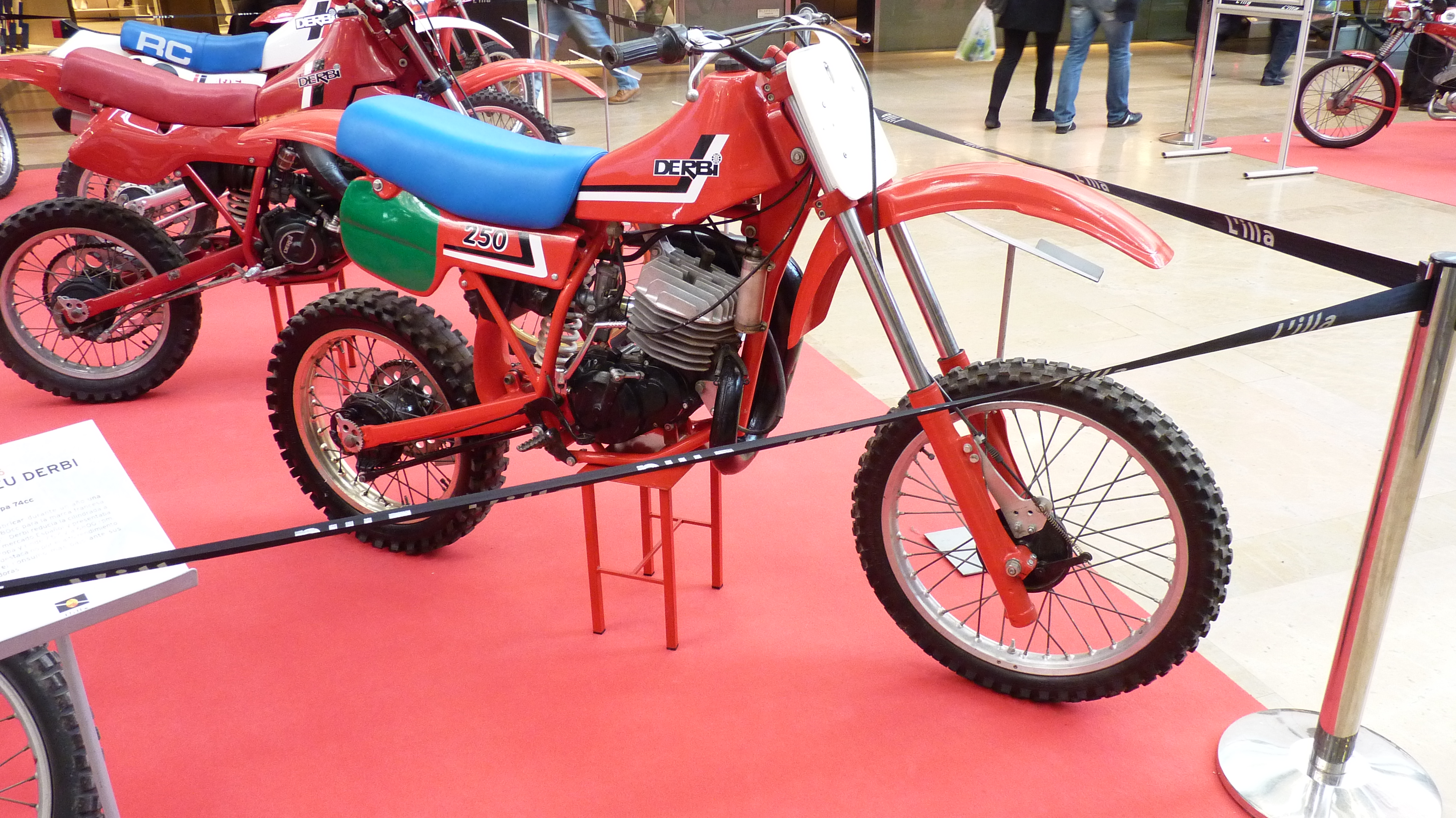 Derbi RC 250 Cross, 1981. AKA "Serie Toni Elías" because he achieved the second place in the 1980 Spanish Campionship on a bike like this.